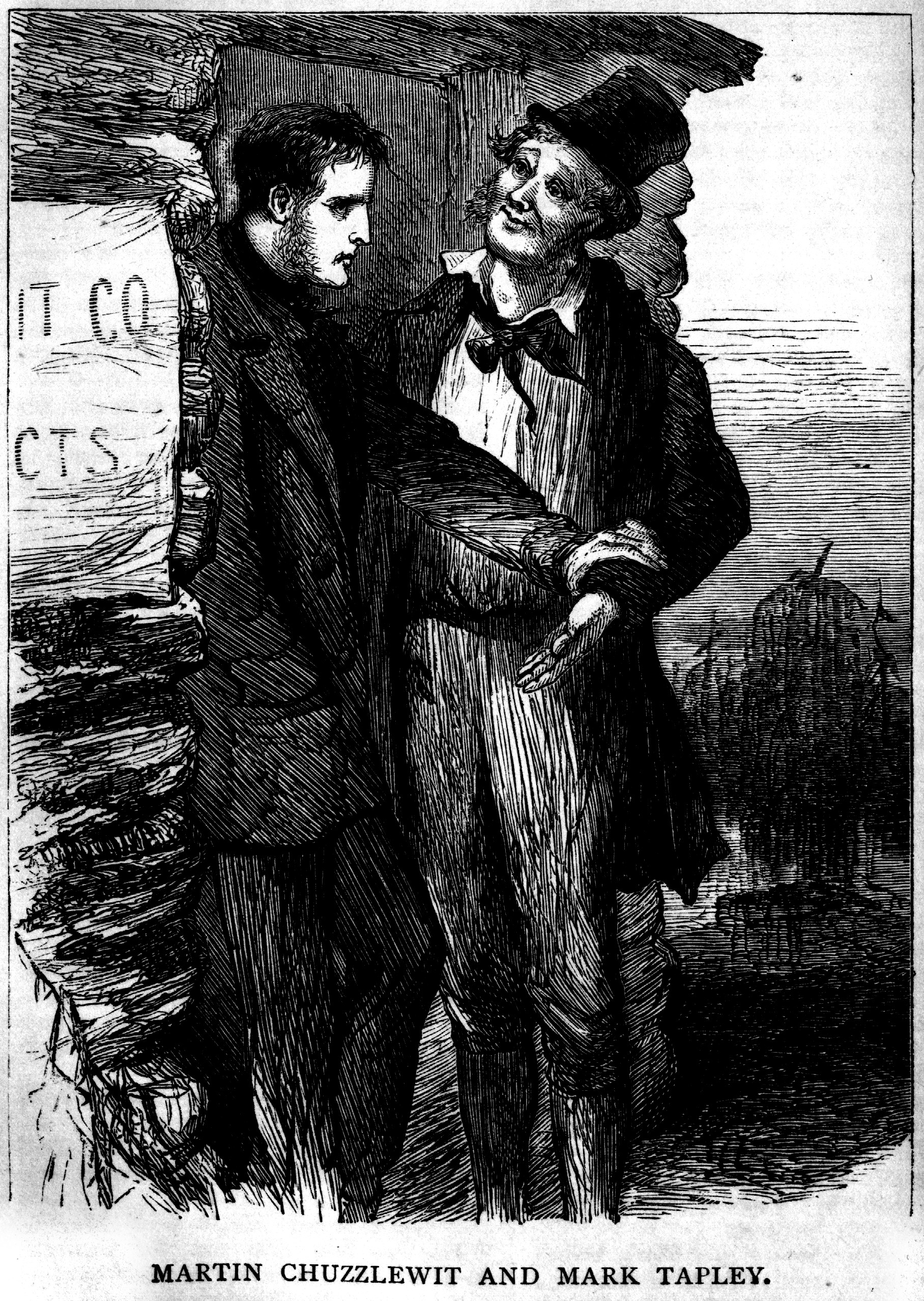 Illustration from 1867 U.S. edition of Martin Chuzzlewit. Page 221. "Martin Chuzzlewit and Mark Tapley"